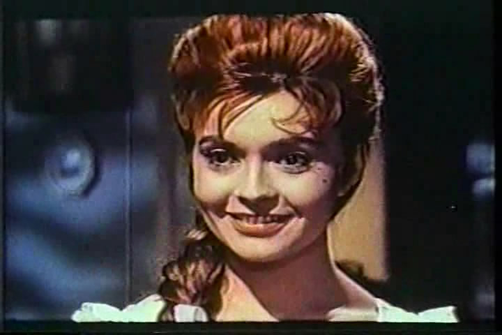 Screenshot of Yvonne Monlaur from the trailer for the film The Brides Of Dracula